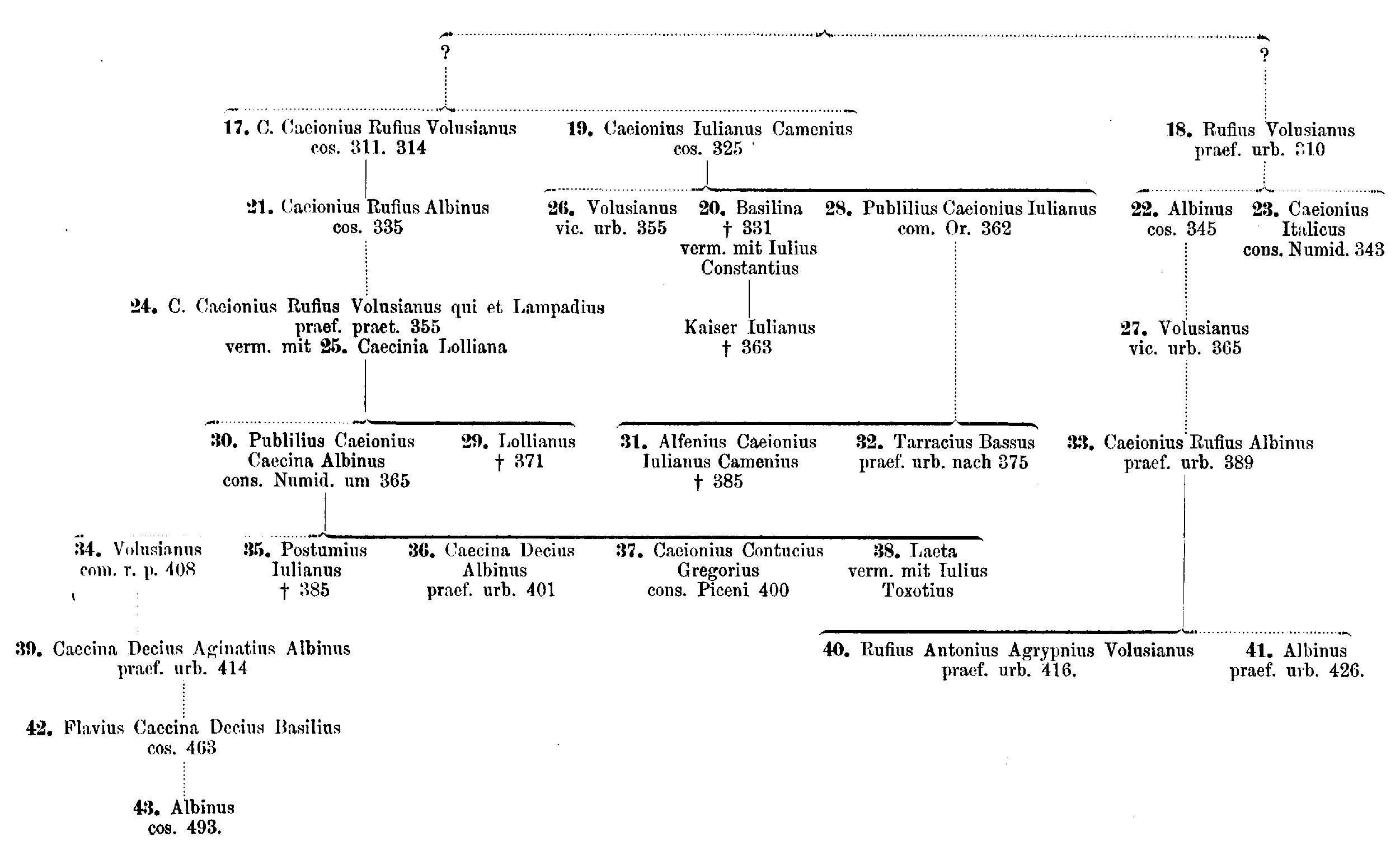 Excerpts from Paulys Realencyclopädie der classischen Altertumswissenschaft vol. III,2